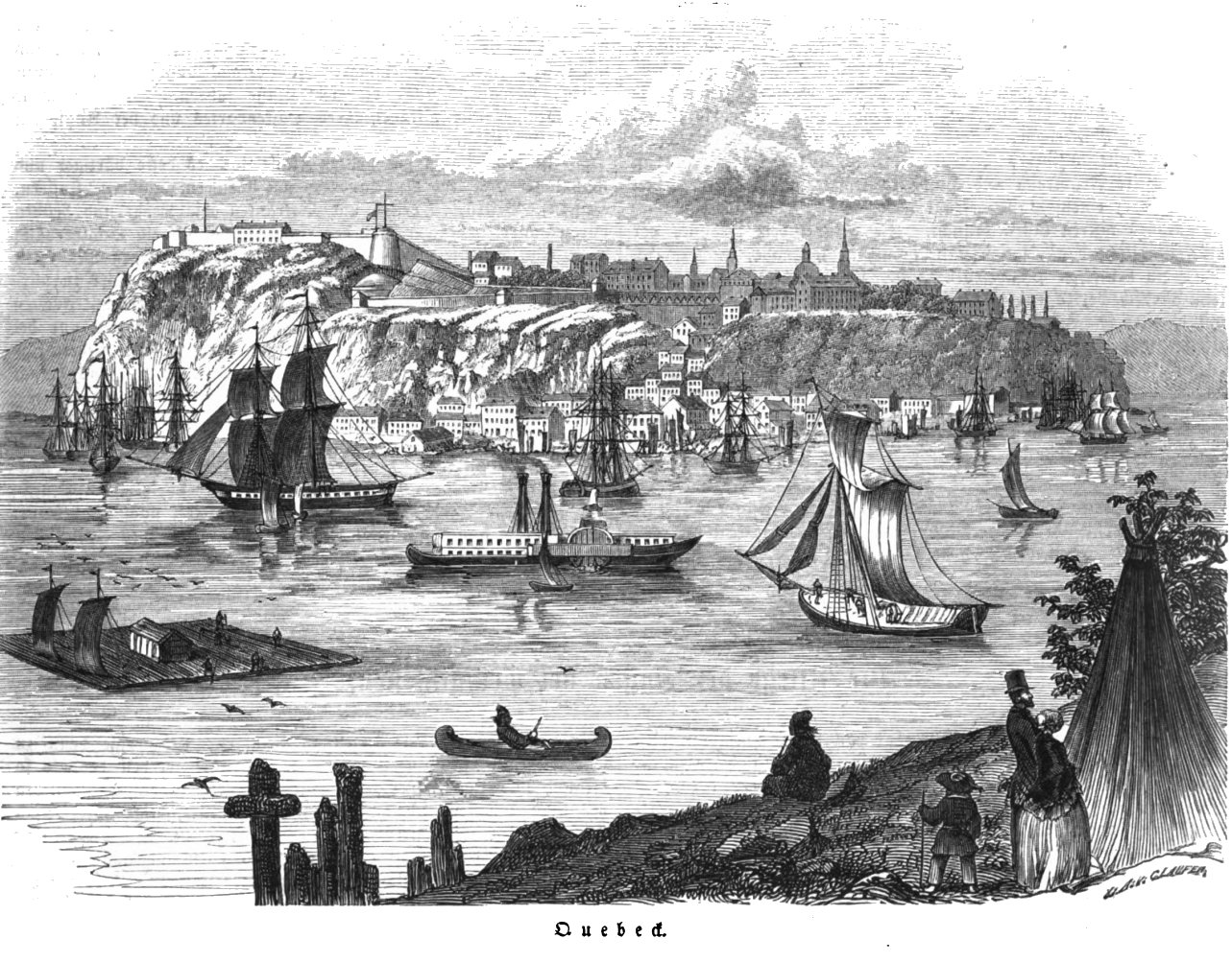 caption: "Quebeck."